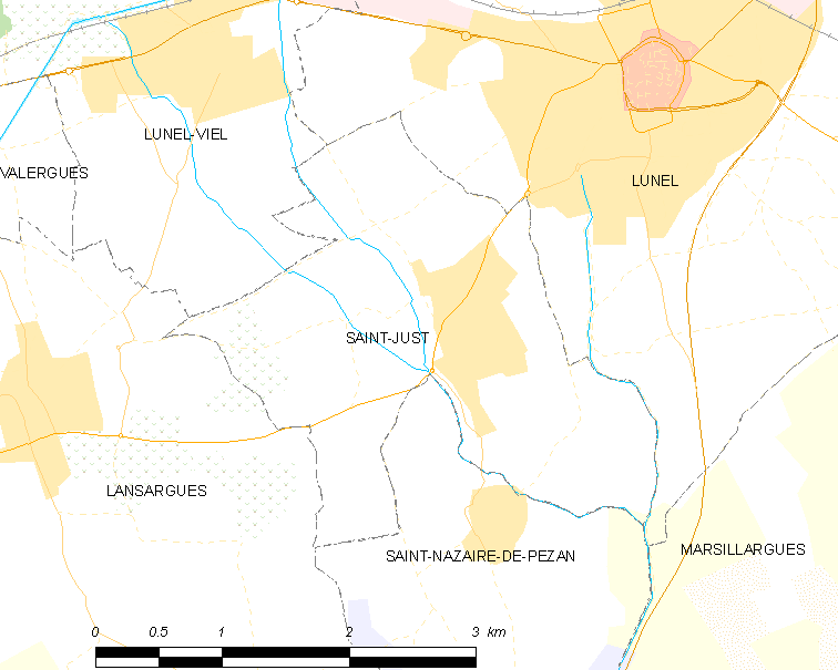 Map commune FR insee code 34272.png - Saint-Just (Hérault)